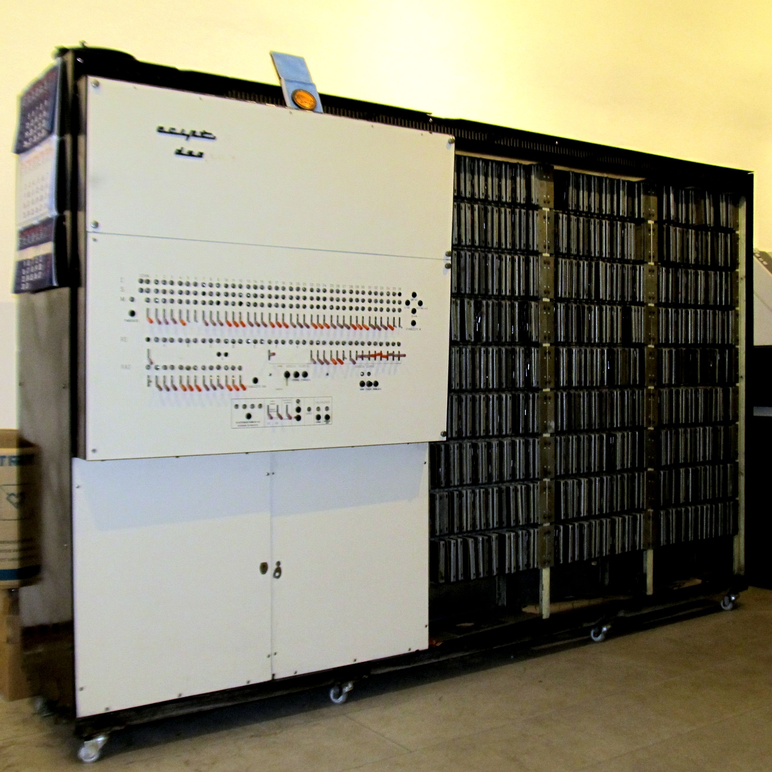 MECIPT-2 at Museum of Banat, Timișoara.